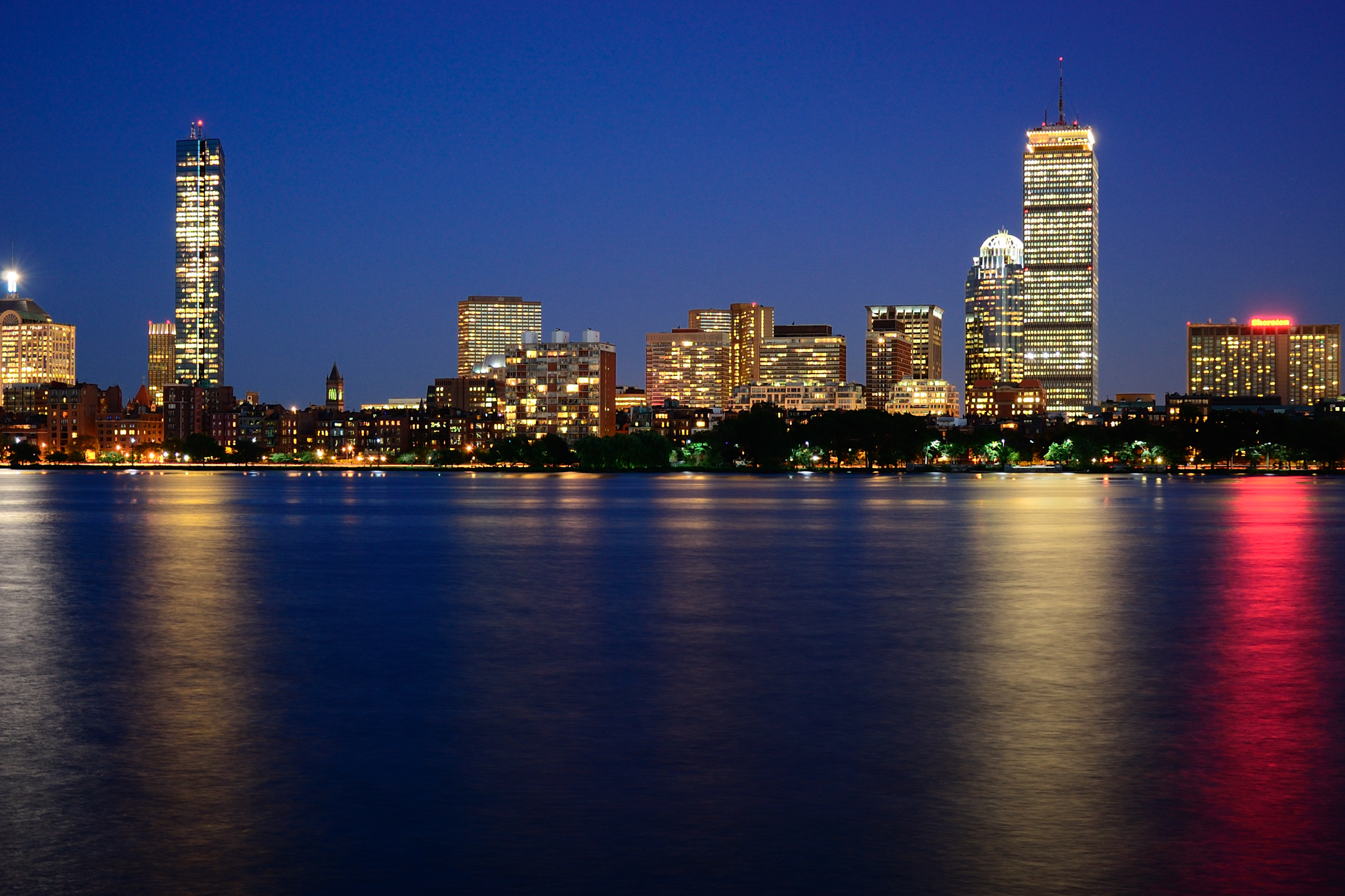 Back Bay skyline and the Charles River Basin viewed from Memorial Drive